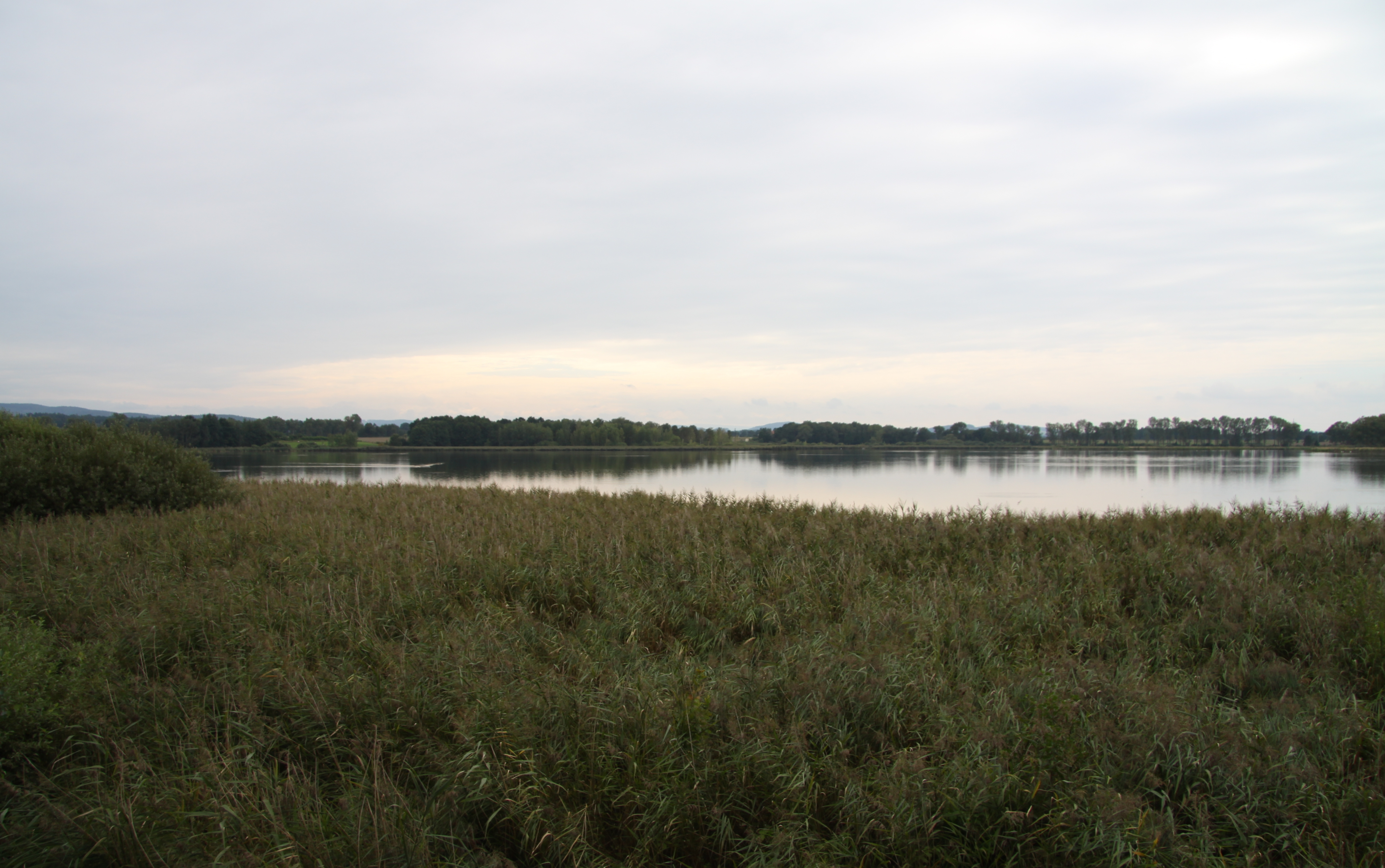 National natural reservation Řežabinec a Řežabinecké tůně, Písek district, Czech Republic. - Google Maps - Google Earth